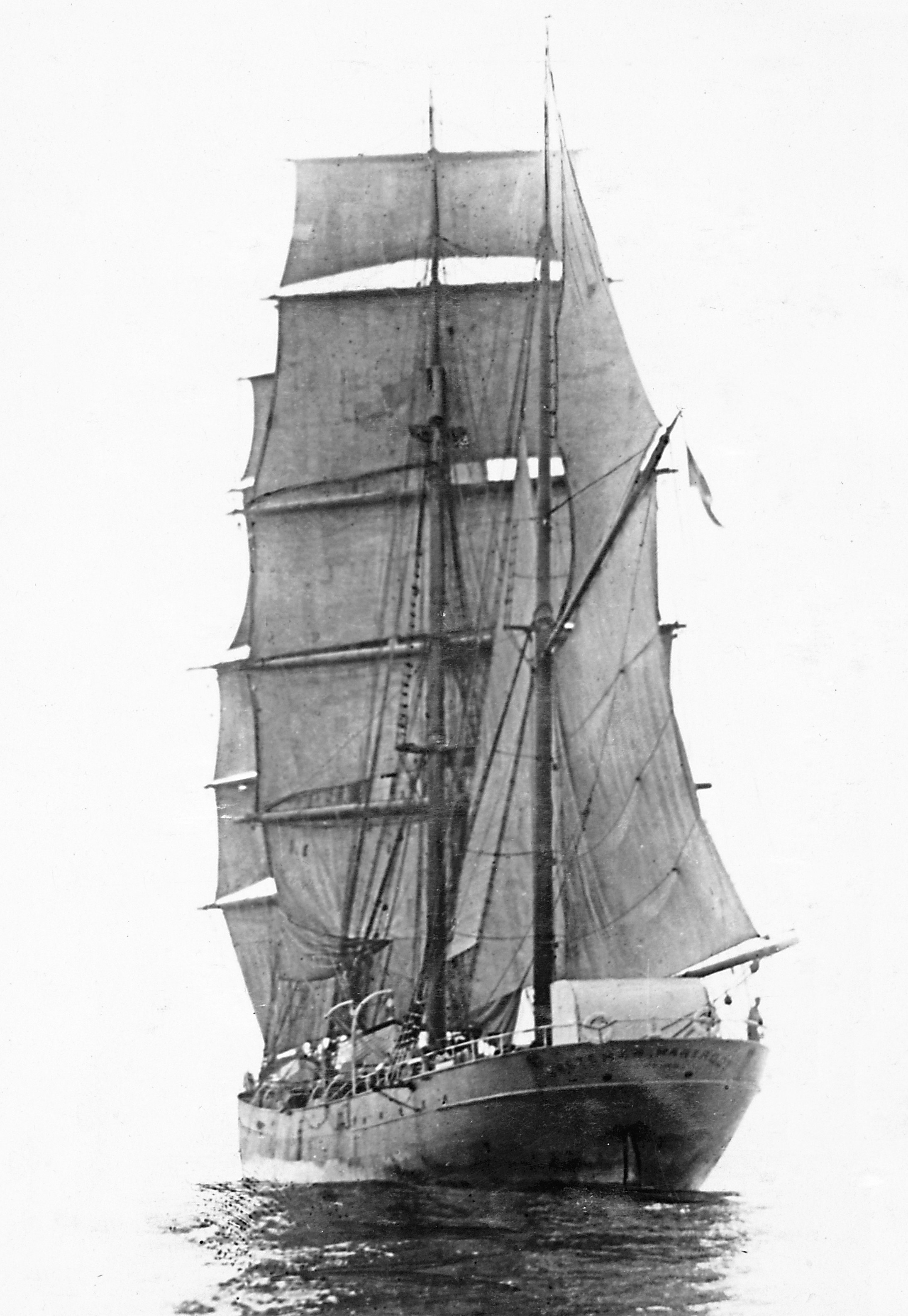 German steel barque „Gretchen Hartrodt“.